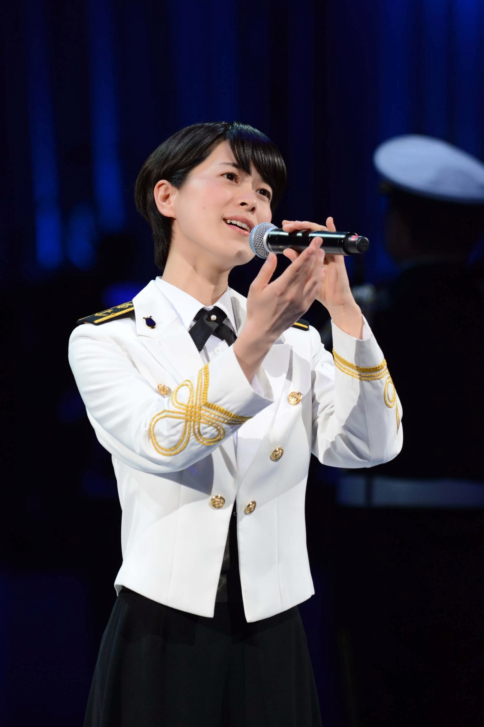 Title NOH_4106.JPG Album 平成25年度自衛隊音楽まつり Photographs by the Japan Ground Self-Defense Force 三宅由佳莉